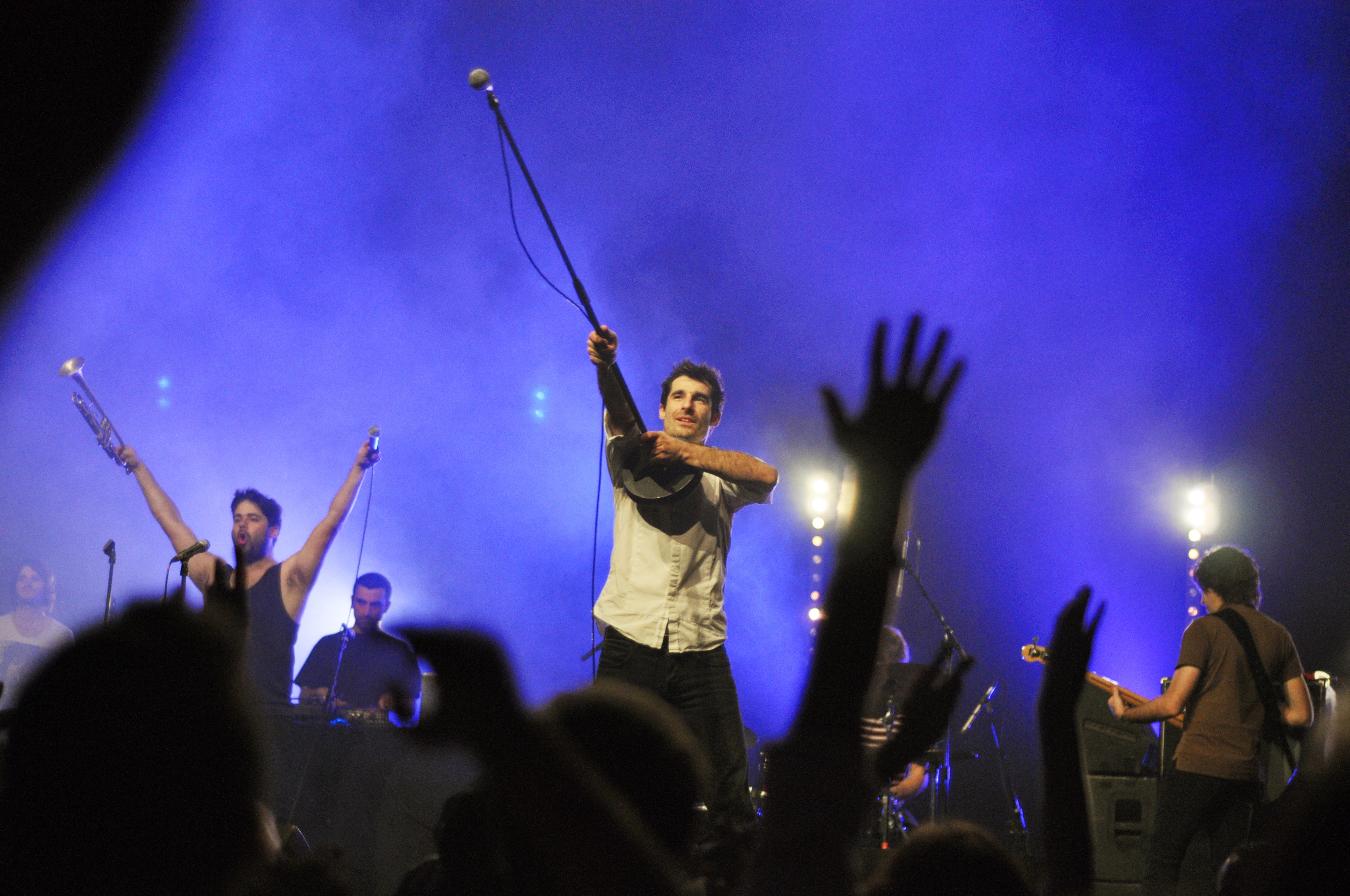 During performance of The Chariot, live in Rennes (France) in 6 November 2011.